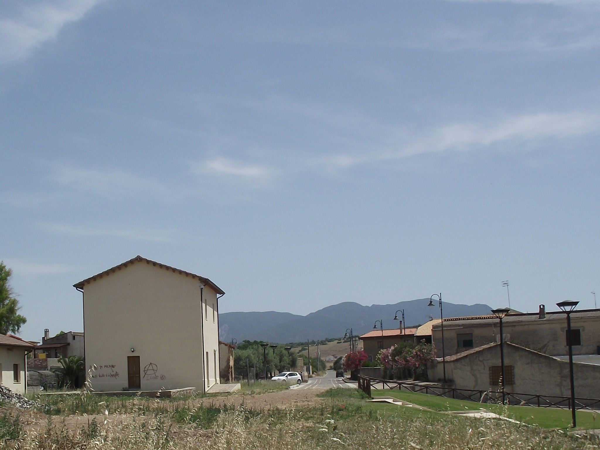 The former train halt of Piscinas in Sardinia, Italy, along the dismantled railway Siliqua-San Giovanni Suergiu-Calasetta